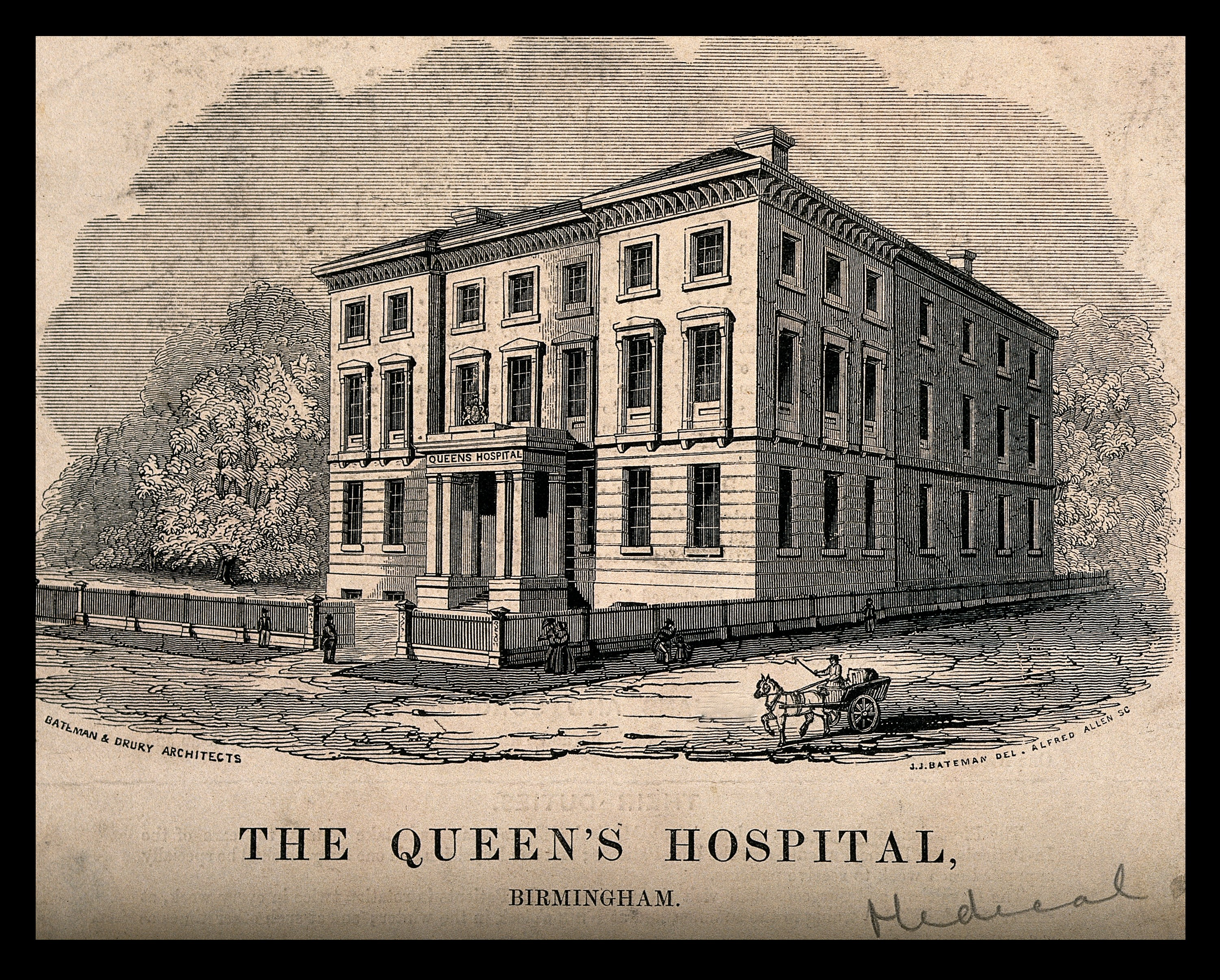 The Queens hospital, Birmingham. Wood engraving by A. Allen after J.J. Bateman after Bateman and Drury. Iconographic Collections Keywords: Alfred Allen; John Jones Bateman; Bateman and Drury.; Queen's Hospital (Birmingham, England)